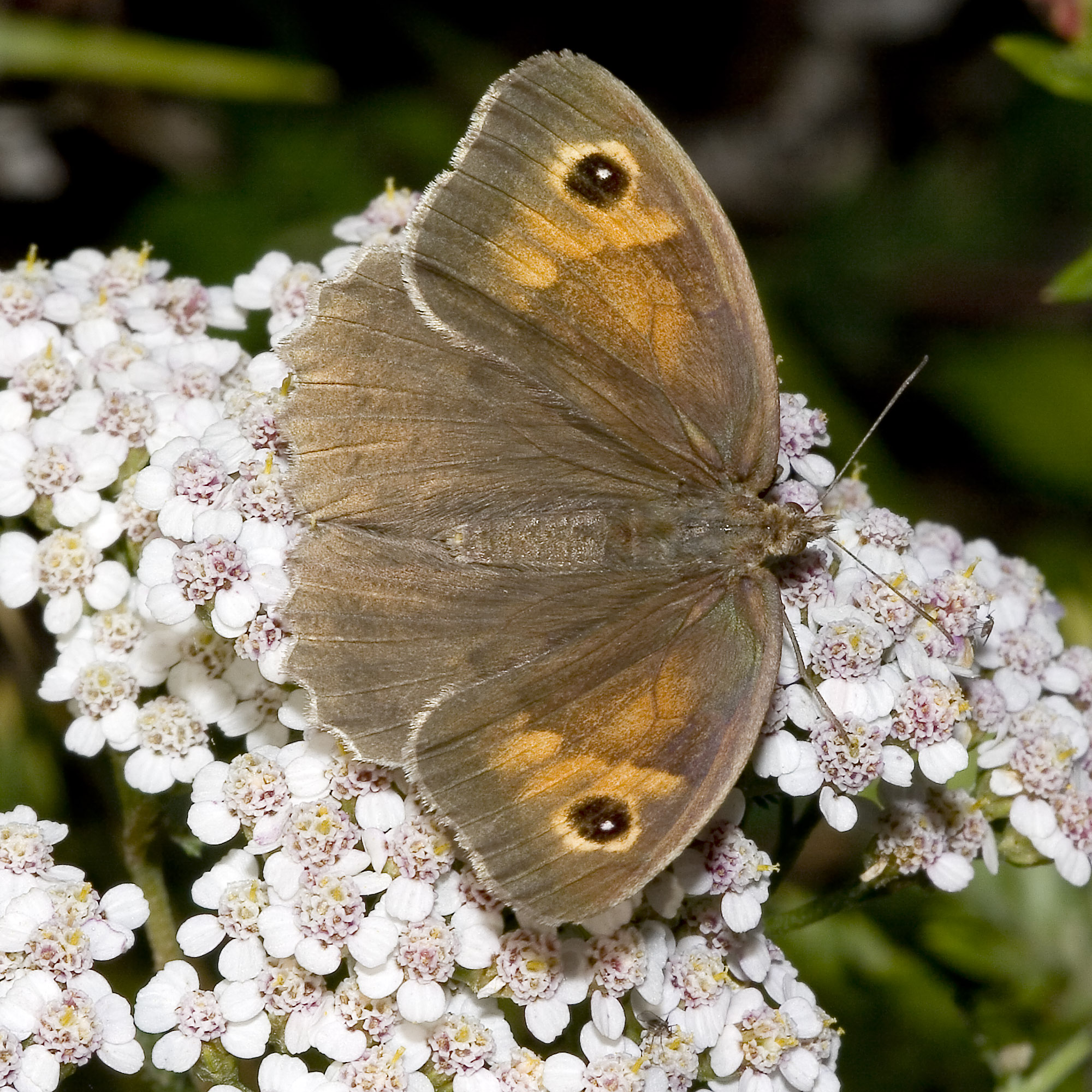 Please report references to .